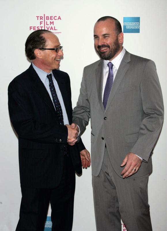 Barry Ptolemy and Ray Kurzweil greet at the 2009 Tribeca Film Festival in New York